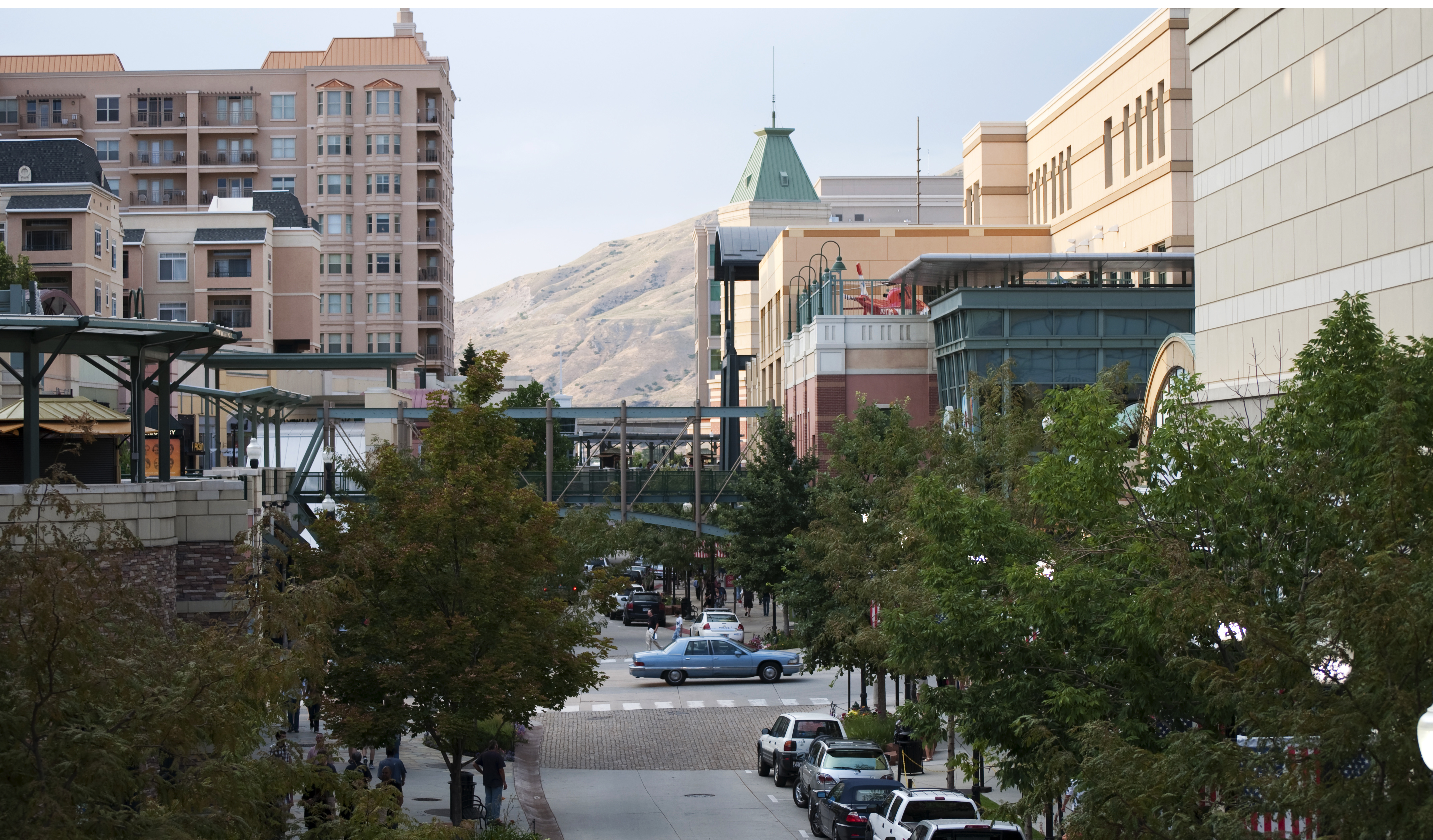 utah, salt lake city, north america, road trip, 2009-08 -- United States Road Trip, filtered, edited, salt lake county, the west, southwest, the gateway